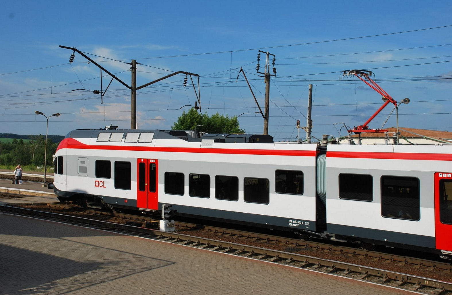 EPG-002 City Lines in Belarus in 2011.